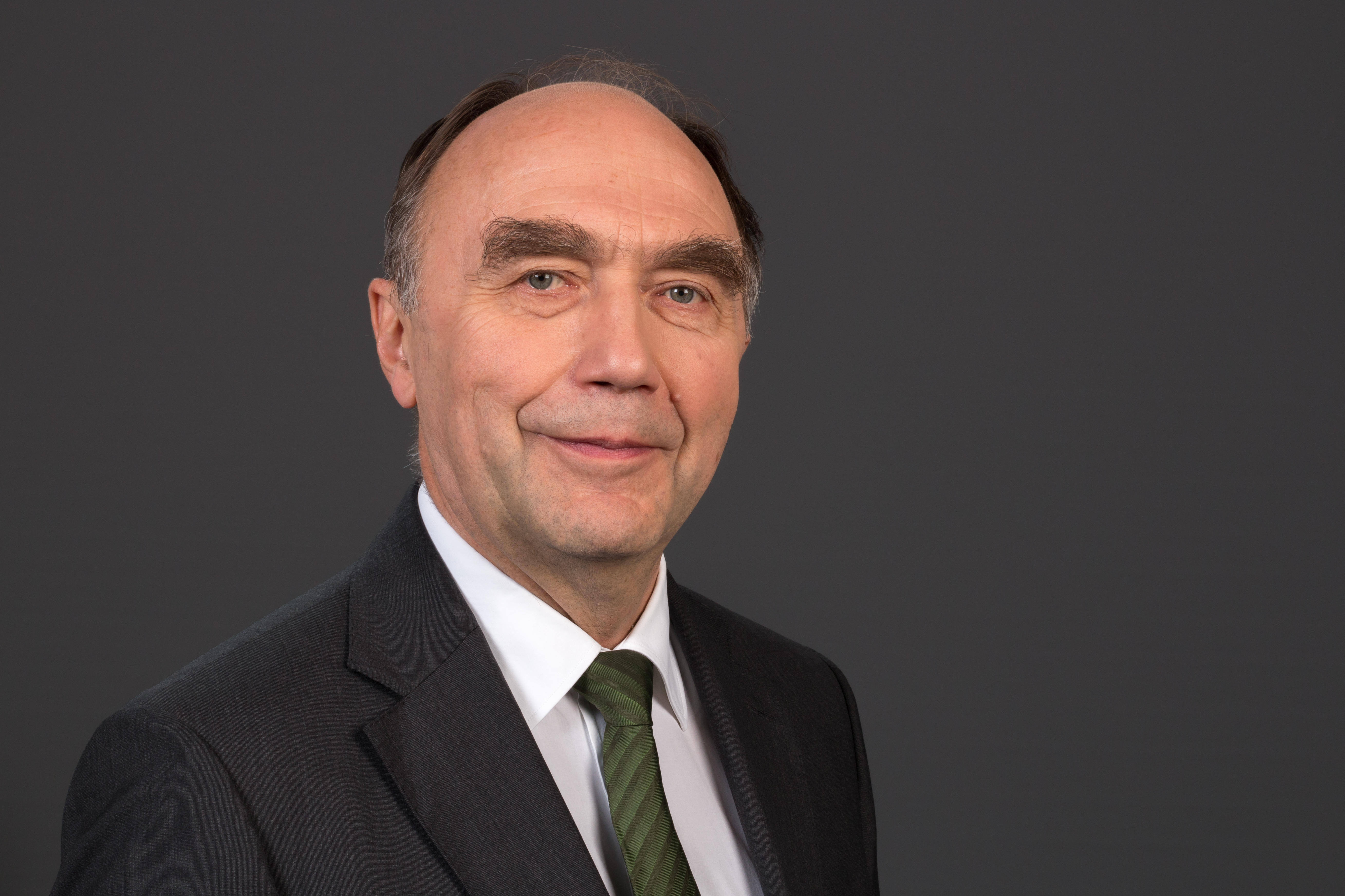 Christoph Bergner, MdB, Christian Democratic Union